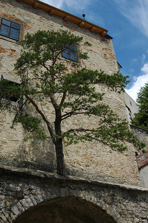 Buchlov castle